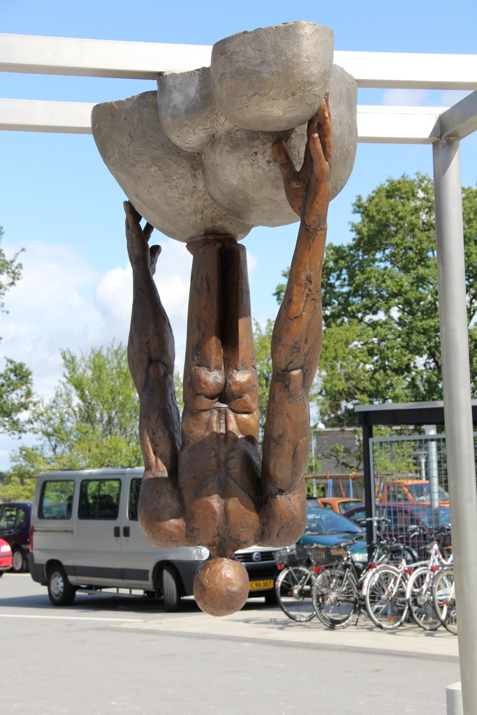 Sail away to the land you know so well, sculpture by Poul R. Weile, Sedenhuse, Denmark, 2011, art in public space